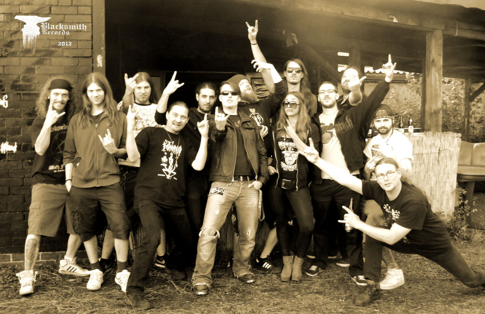 crew including the bands Ritual Killing, Arroganz, Schleiße Stankend Gliud, Sintech